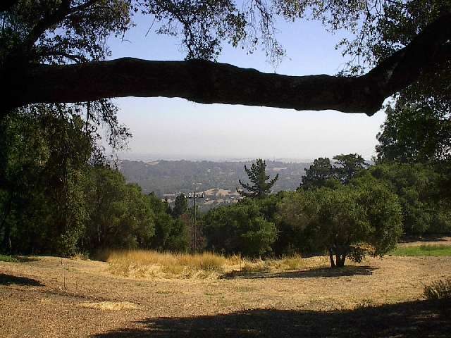 view from La Honda (California state) down to Stanford University